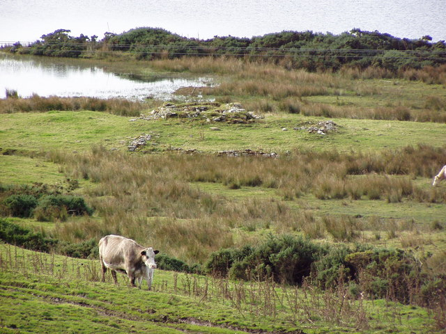 Tulach An T-Sionnaich Chambered Cairn from roadside